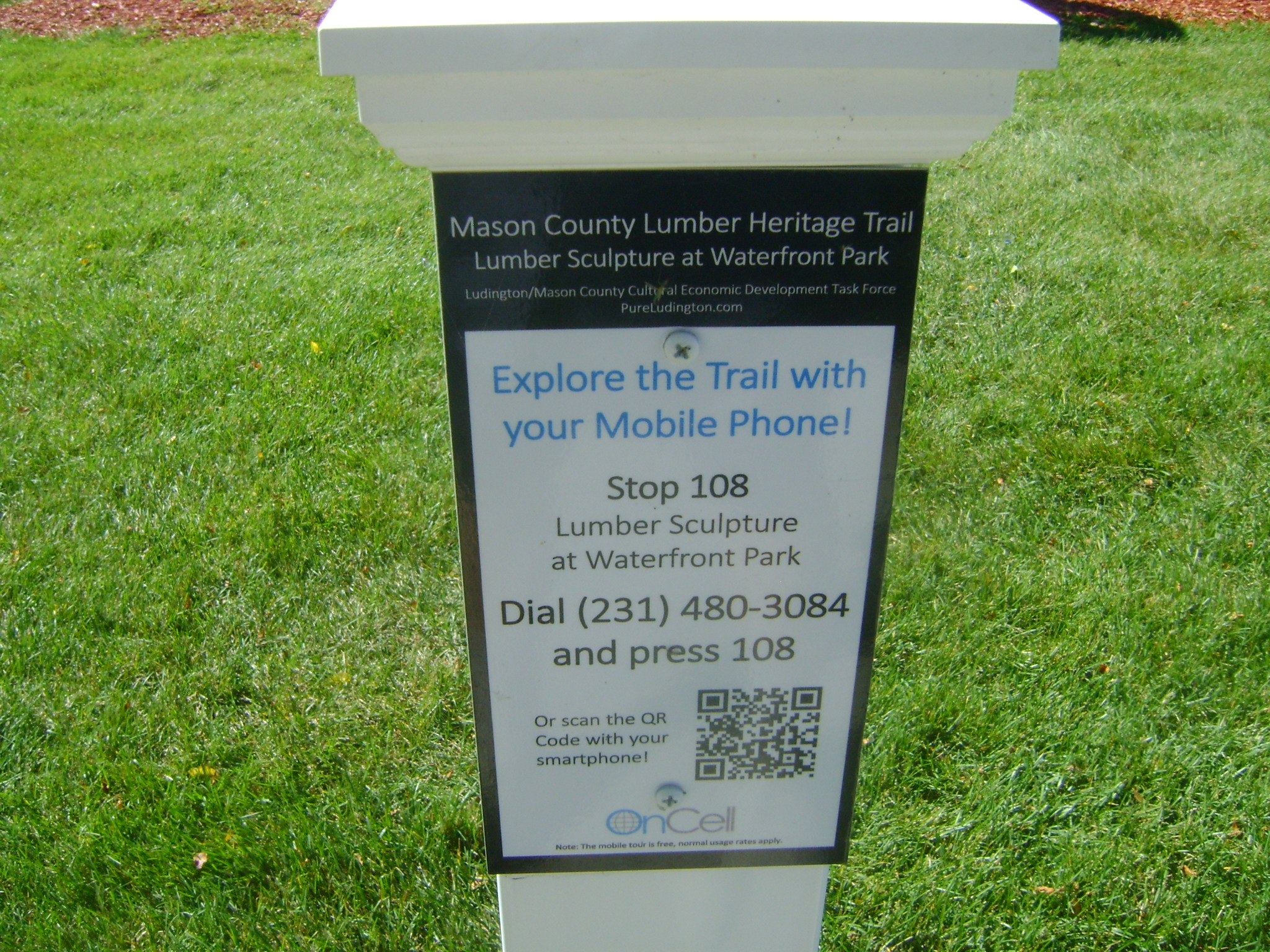 OnCell ID post for scanning QR code with smart phone.